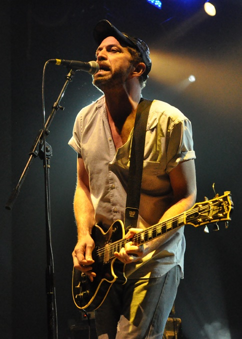 Matt Sweeney of the band Chavez performing at the All Tomorrow's Parties Presents I'll Be Your Mirror festival, September 30, 2011 in Asbury Park, New Jersey.